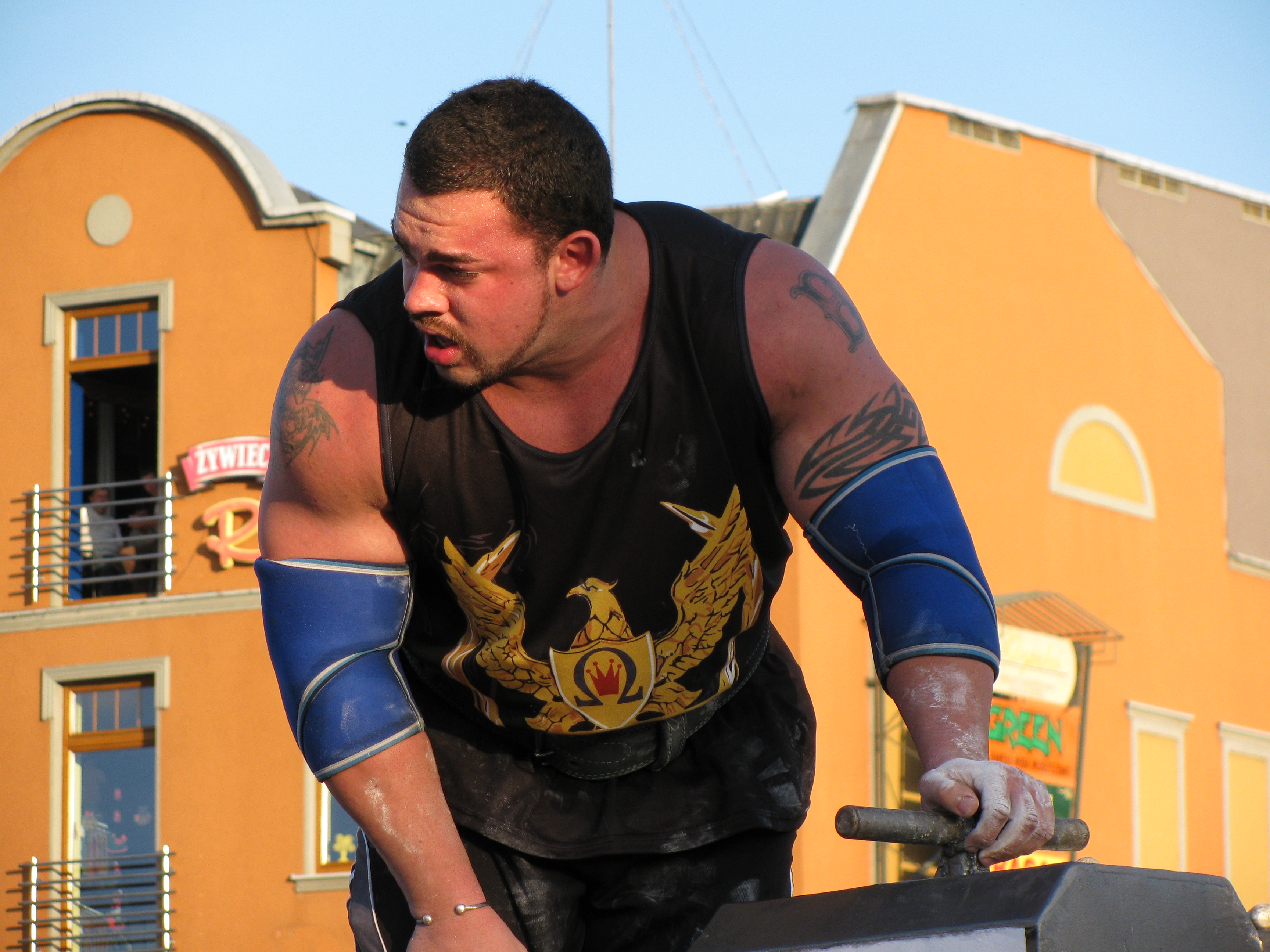 Kevin Nee - a strength athlete from the United States.